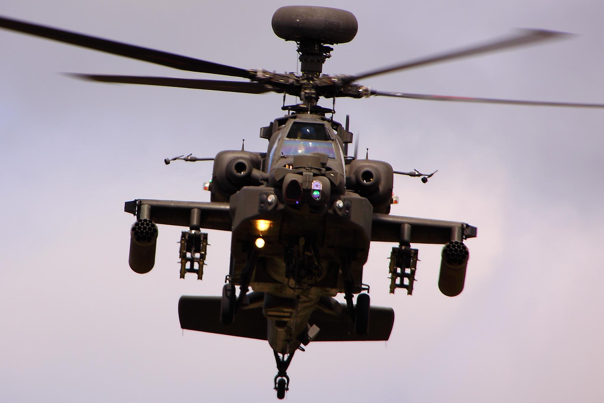 Apache AH64D Longbow - RIAT 2011